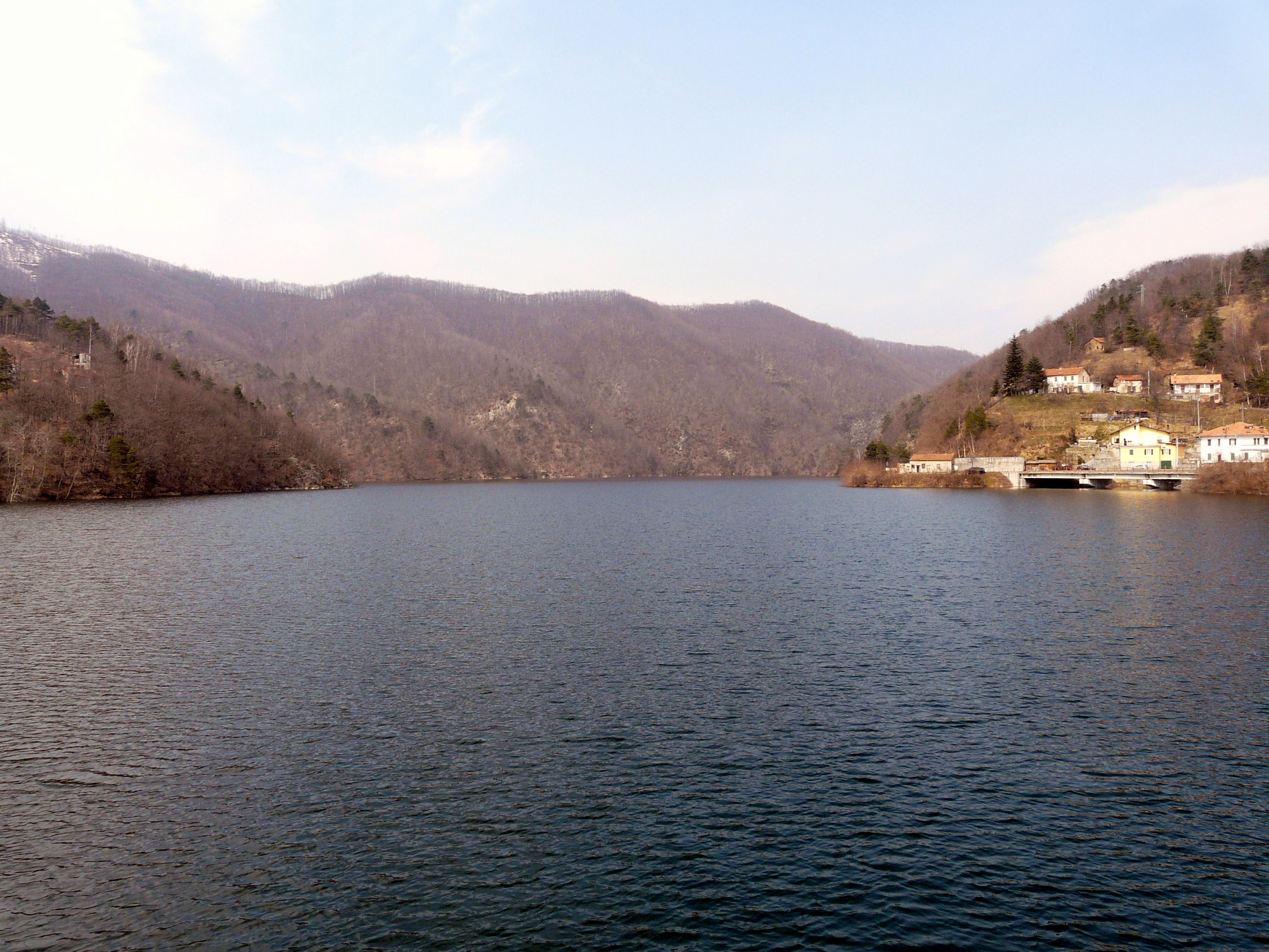 Lago di Osiglia, Liguria, Italia This is a photography of Natura 2000 protected area with ID IT1323115